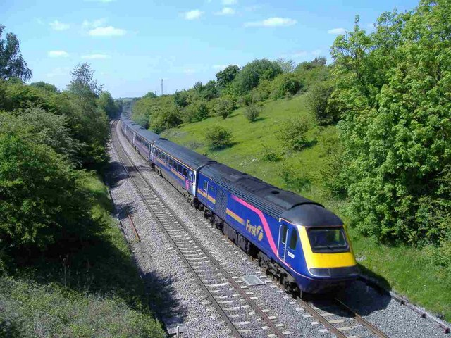 Train from South Wales, passes Wootton Bassett